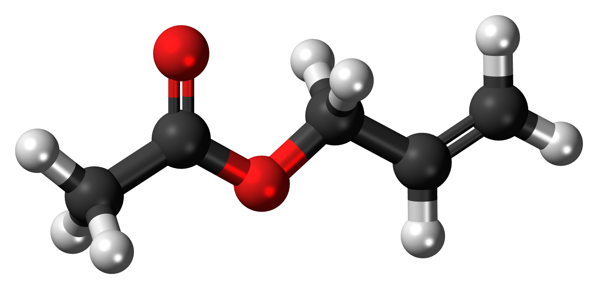 Ball-and-stick model of the allyl acetate molecule, the ester of allyl alcohol and acetic acid. Colour code: Carbon, C: black Hydrogen, H: white Oxygen, O: red